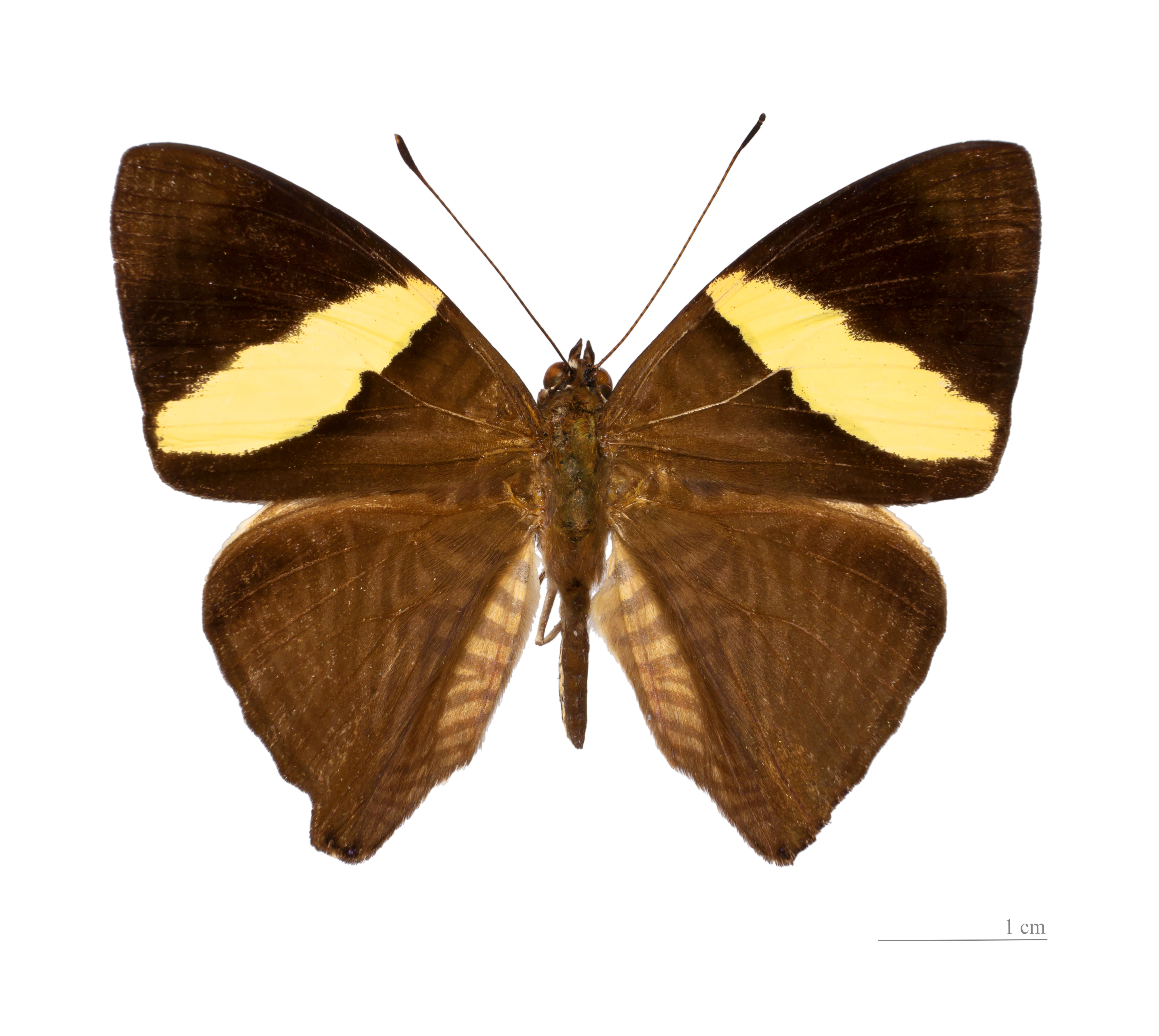 ♂ - Dorsal side Locality : Lac Rorota, Montjoly, French Guiana.